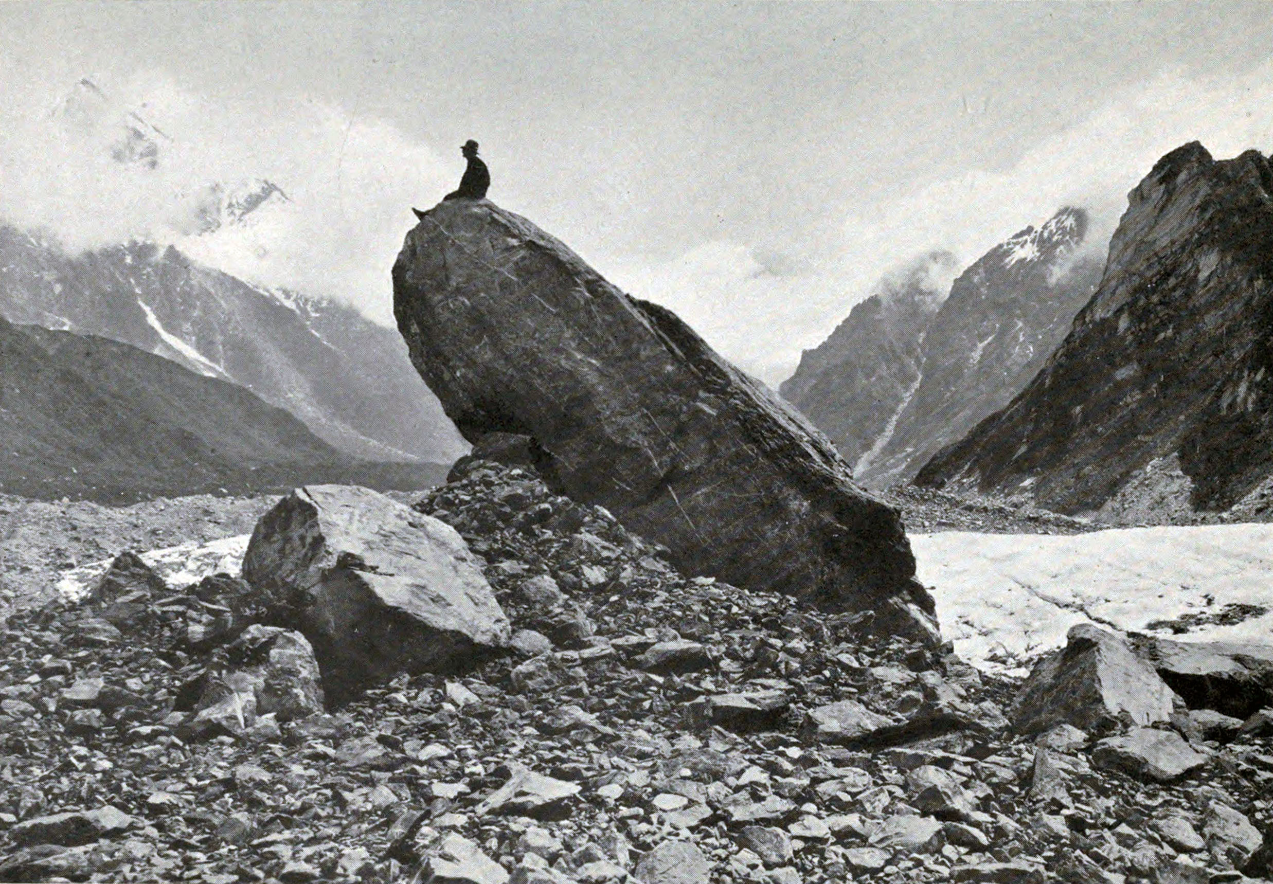 from The Conquest of the Mount Cook